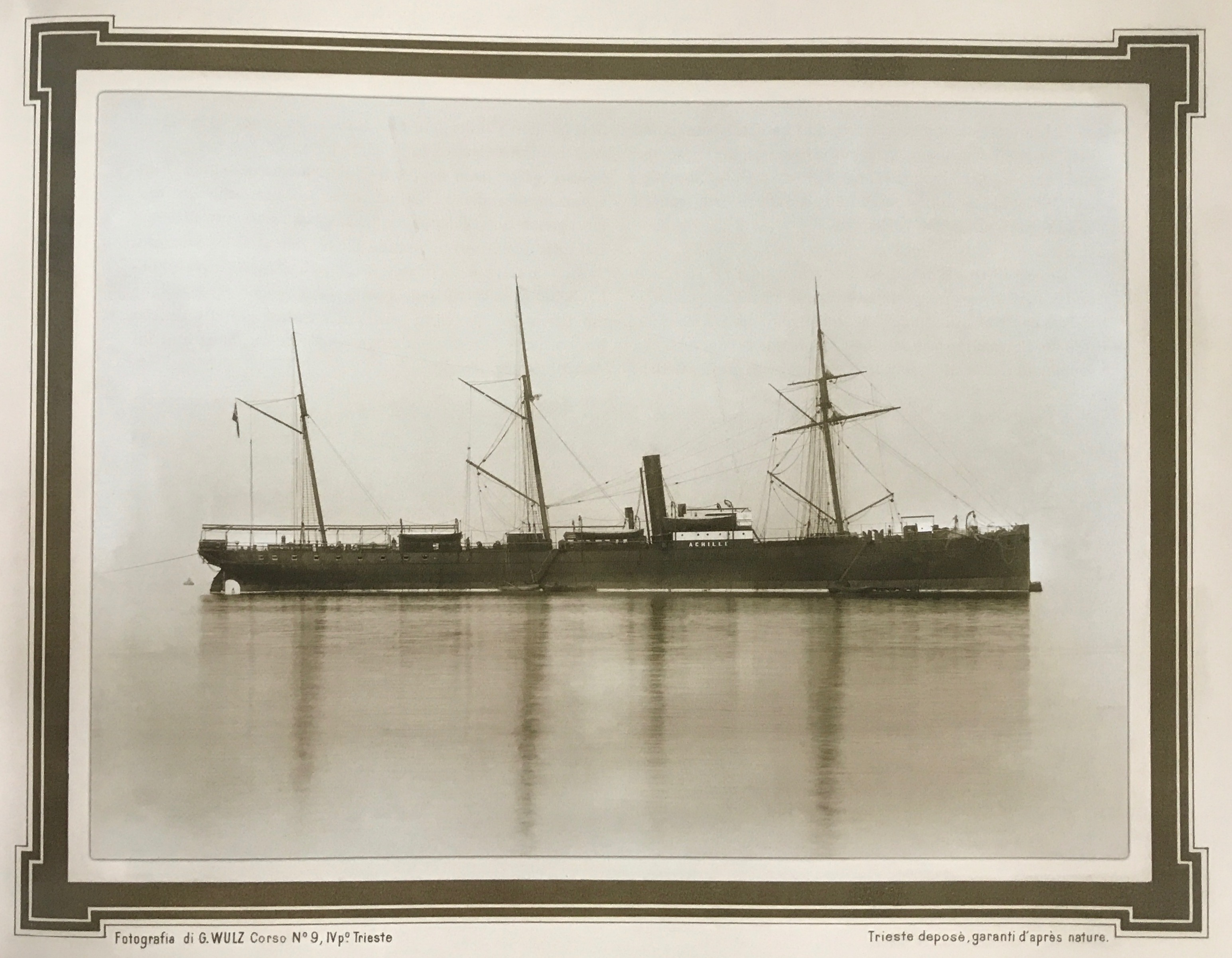 Photograph of SS "Achille" of the Austrian Lloyd (ca. 1895)